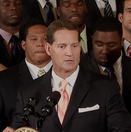 Auburn football head coach Gene Chizik at the White House on 8 June 2011.